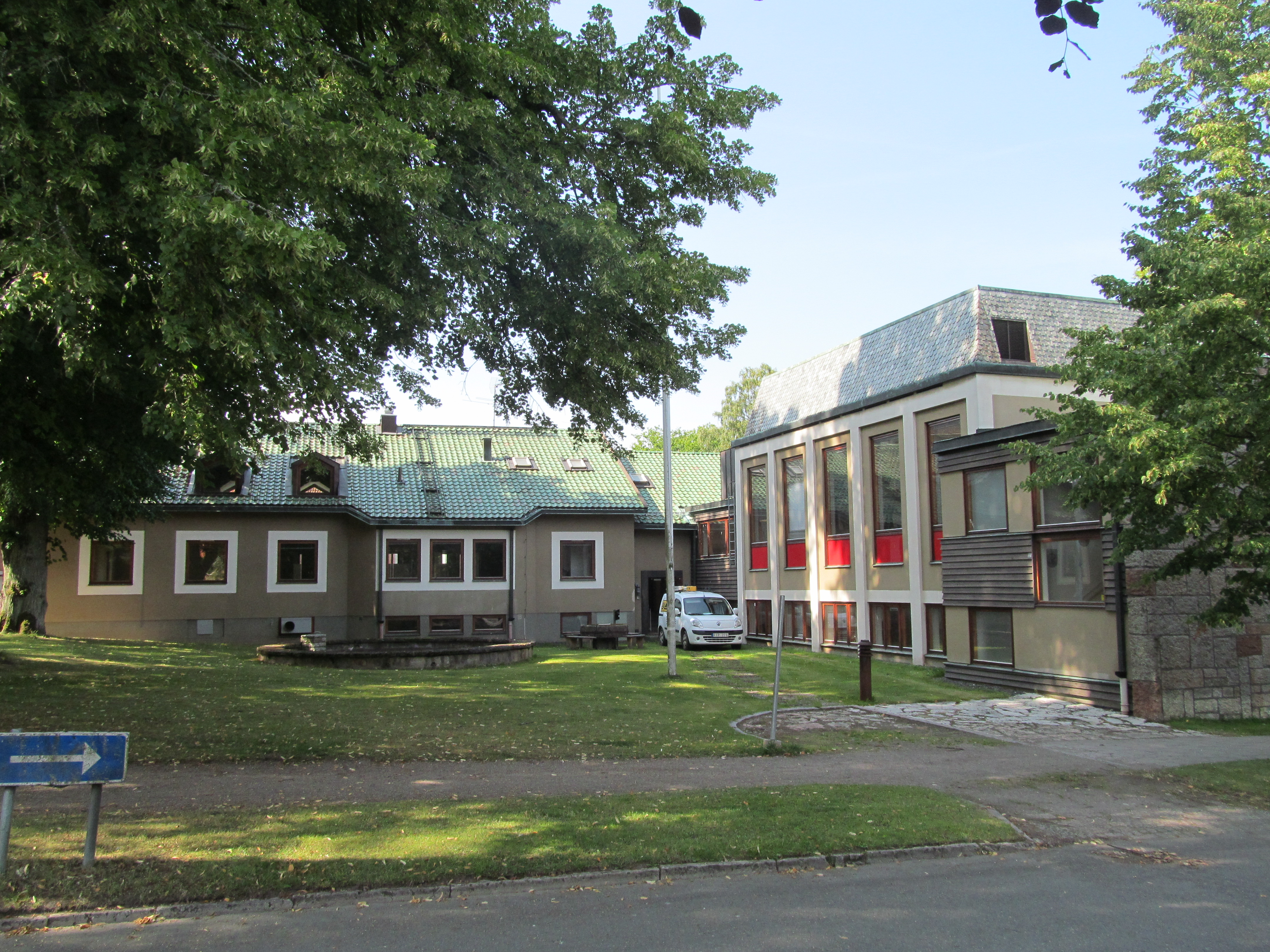 Building constructed as a courthouse in 1958-59 in Skara. Architects were Drott Gyllenberg and Thorsten Thorén. The court closed in 1970. Between 1975 and about 2000 the building was used by the Swedish University of Agricultural Sciences. Between 2004 and 2007, the headquarters of the Swedish Animal Welfare Agency was located in the building and after that, mostly empty. The building is currently being renovated to enable Skara skolscen (drama school) to move in. Photo from the east. In the far right of the picture, there has been a staircase up to an entrance for the public, from the time when the building served as a court house.